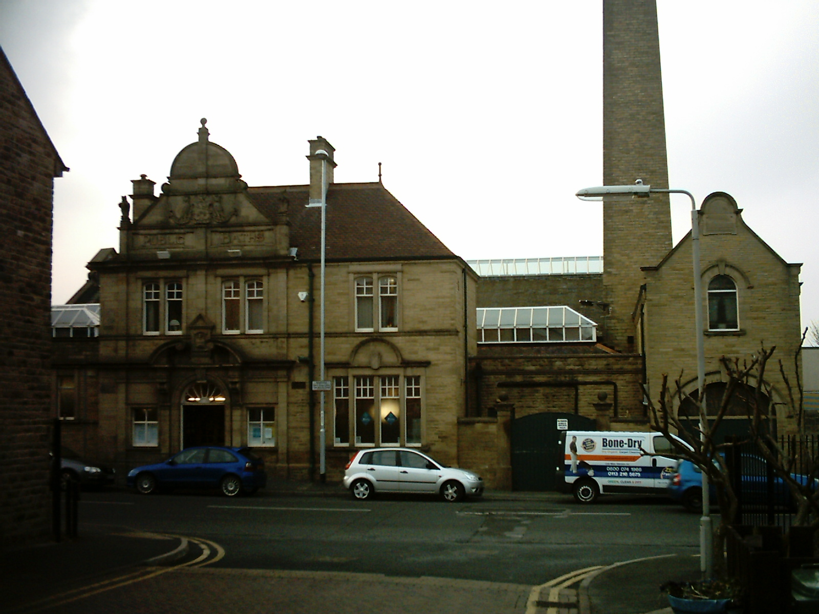 Bramley Baths, Bramley, Leeds, UK. Leeds' only Edwardian Baths. Taken 14th April 2009